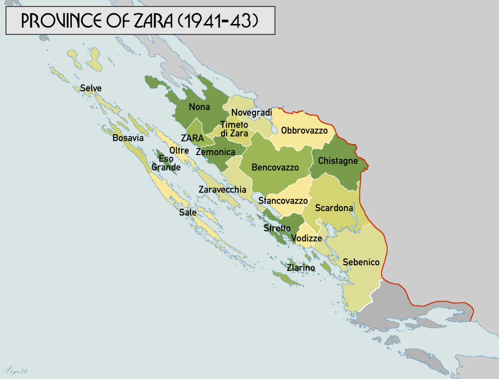 Map of the Italian Province of Zara (1941-43). Source data: Volkstumskarte von Jugoslawien, Wilfried Krallert (1941)